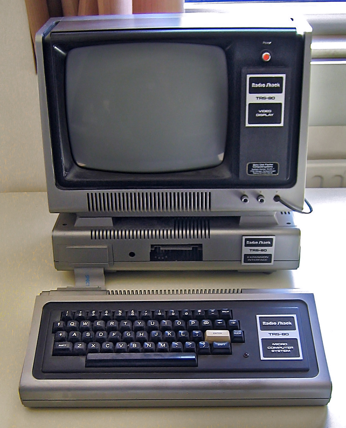 Tandy Corporation (Radio Shack) TRS-80 Model I computer system